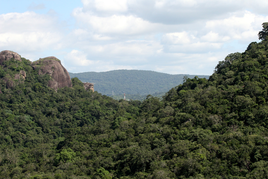 From aerial view